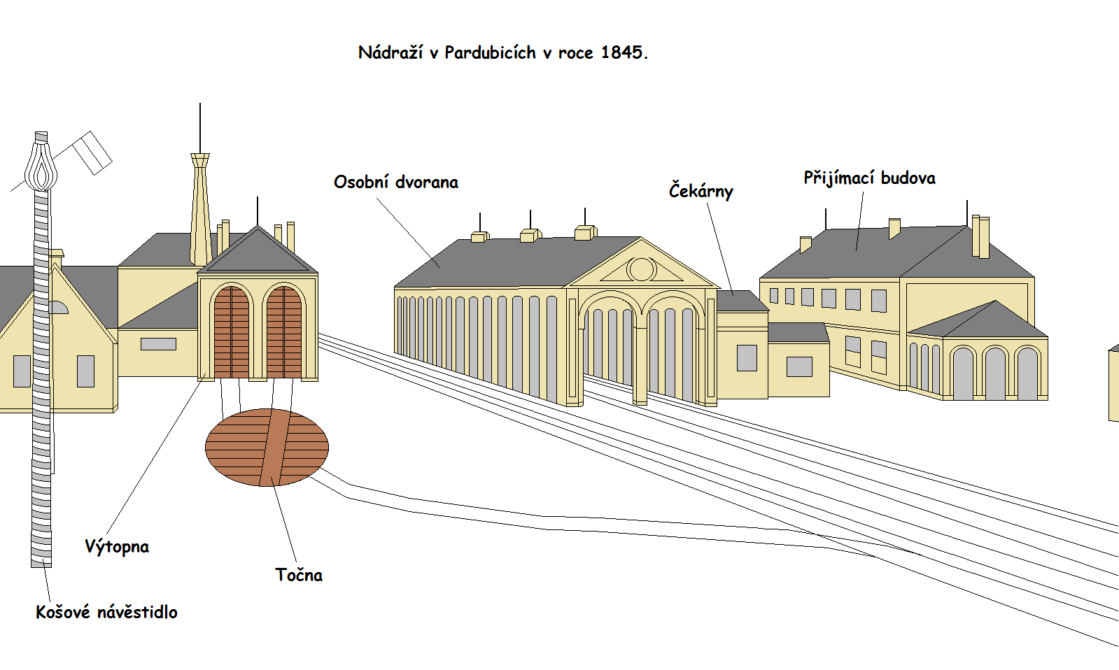 The nonexistent railway station in Pardubice. Built in 1845. Was found at the same place, what the present station Pardubice hlavní nádraží.